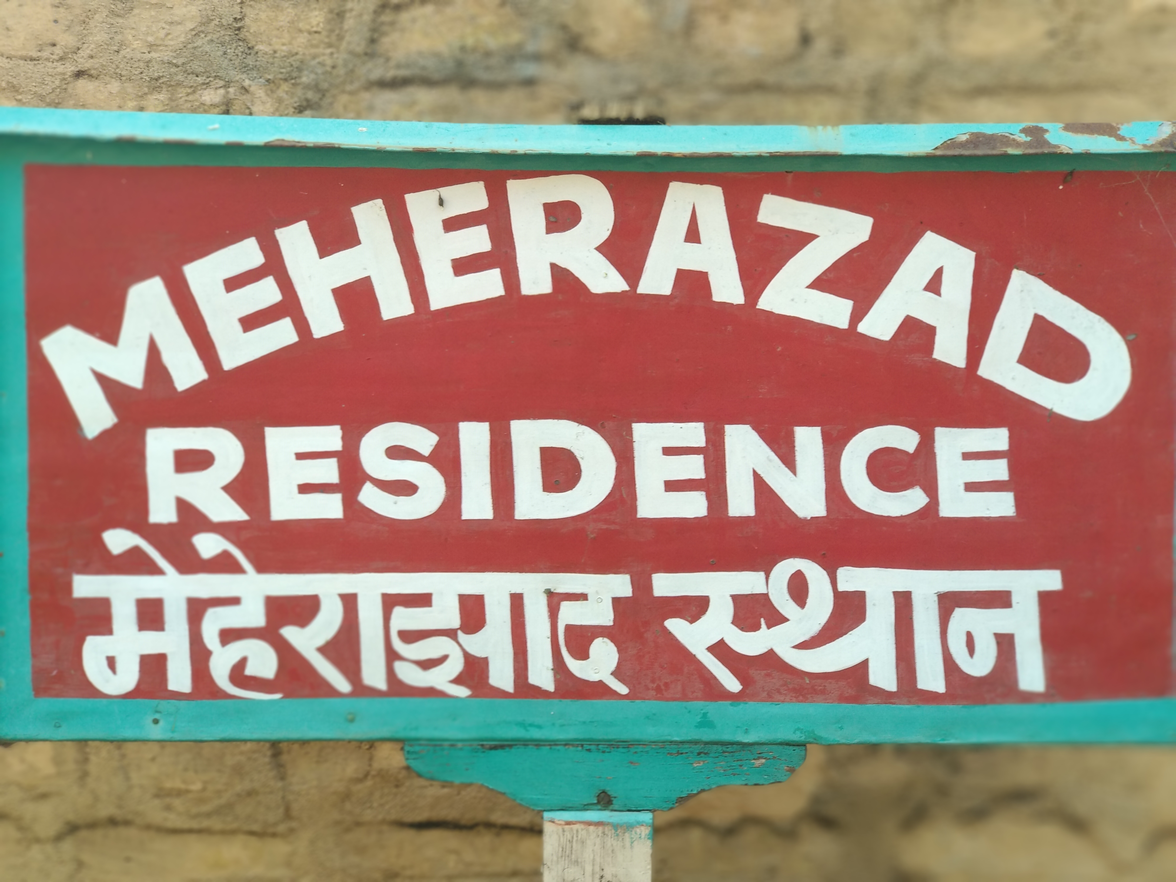 Meherazad